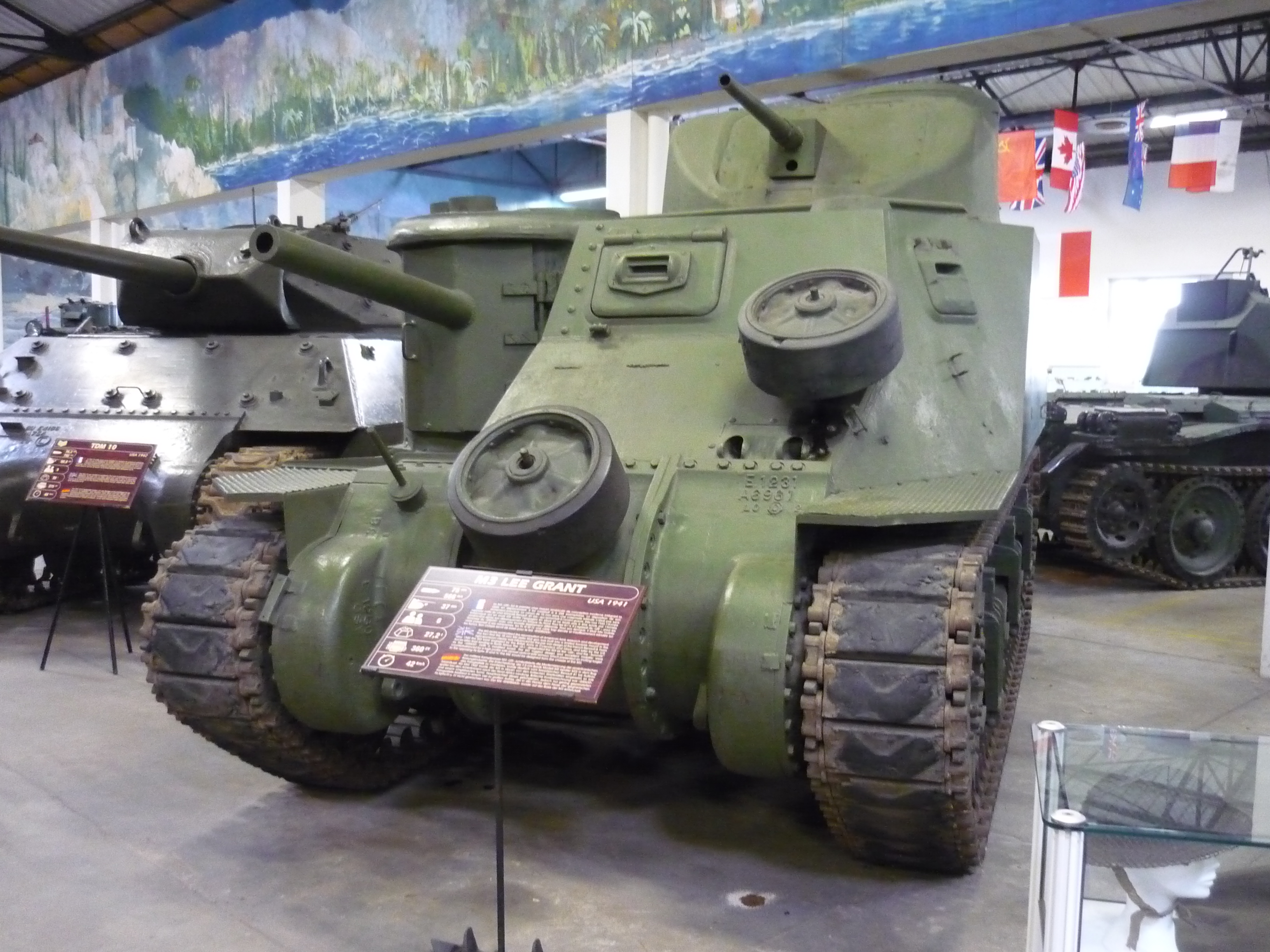 M31 Tank Recovery Vehicle (with dummy guns installed to resemble M3 Medium Tank), at the Tank Museum of Saumur, France